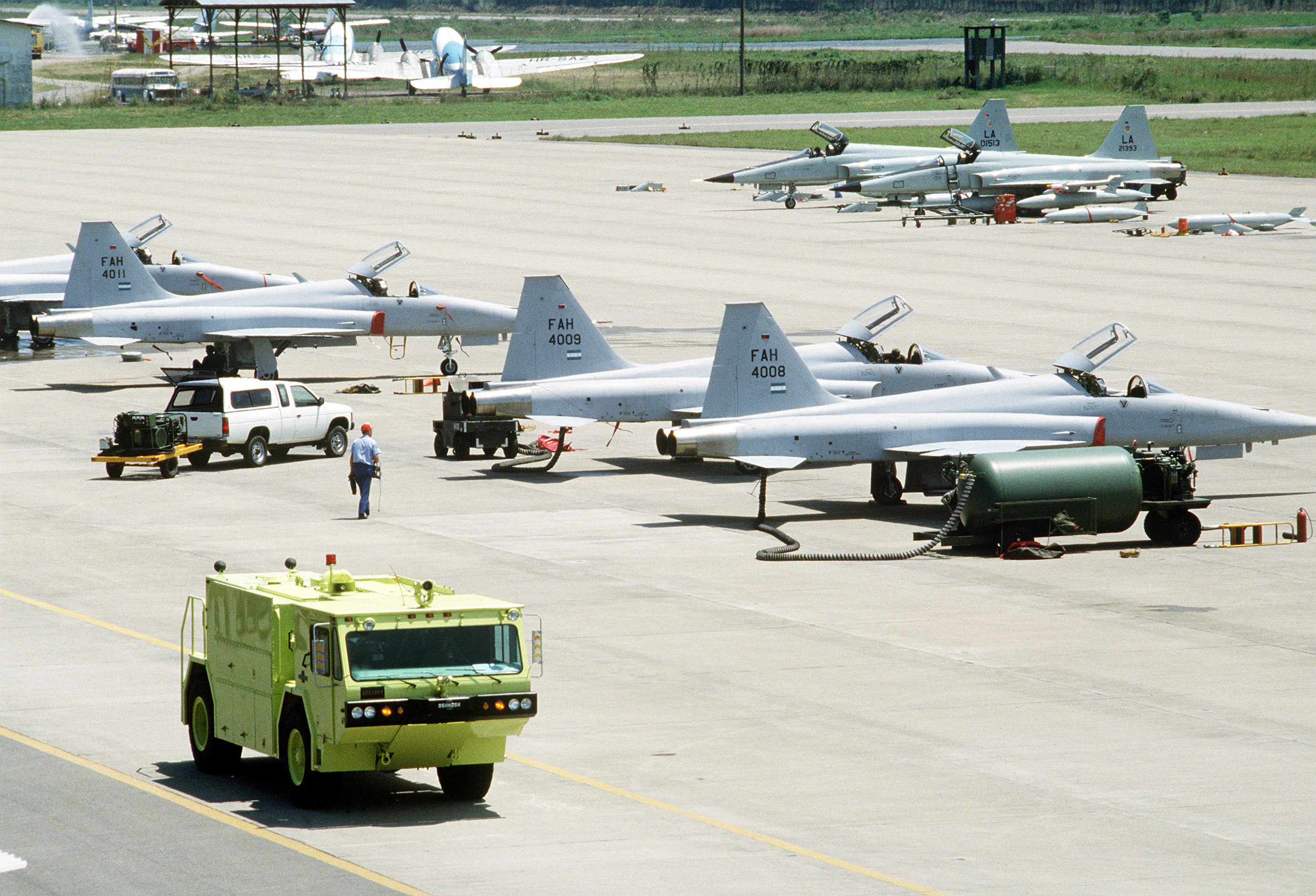 Honduran Northrop F-5E Tiger II aircraft are serviced on the flight line as a firefighting and rescue truck stands by during a joint exercise between the USAF 425th Tactical Fighter Training Squadron and Honduran air force units. Two F-5E Tiger II aircraft of the 425th TFTS are in the background. The Honduran air force received ten F-5Es and two F-5Fs between December 1987 and January 1989, with the 425th TFTS conducting the training of the Honduran pilots. Note the Servicio Aéreo de Honduras SA (SAHSA) Douglas C-47s in the background.